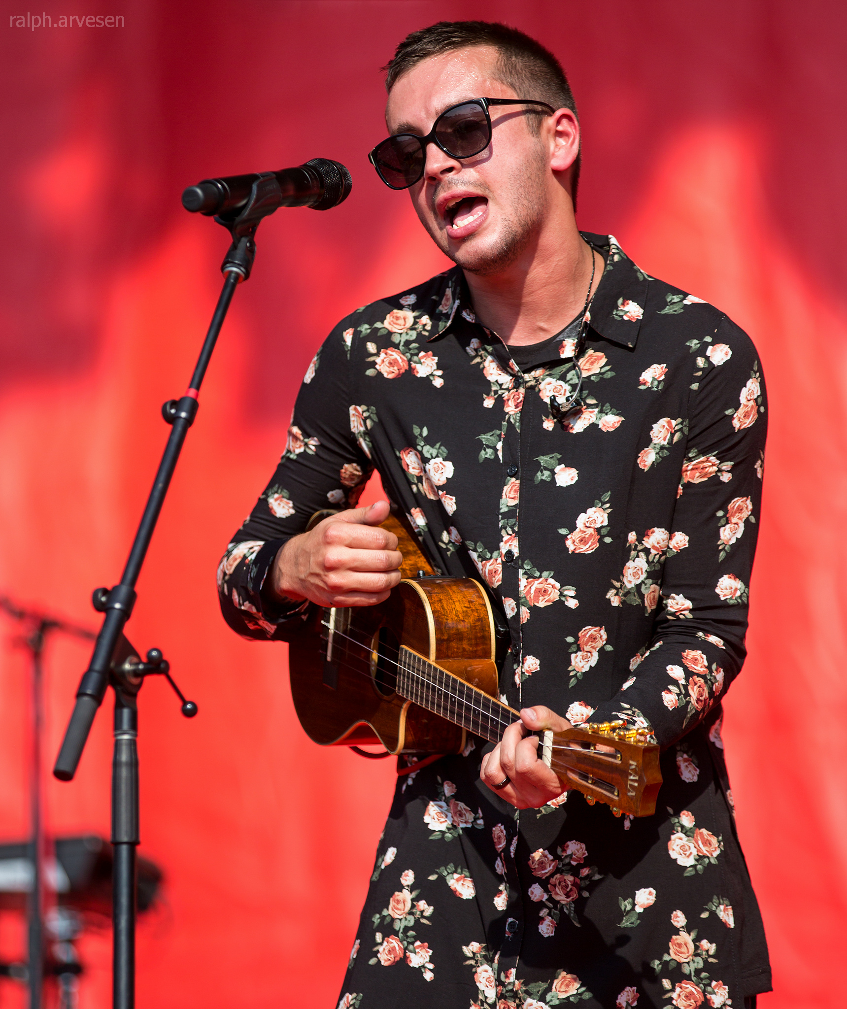 Twenty One Pilots / Tyler Joseph. Austin City Limits Music Festival overview from Friday, October 9 through Sunday, October 11, 2015.